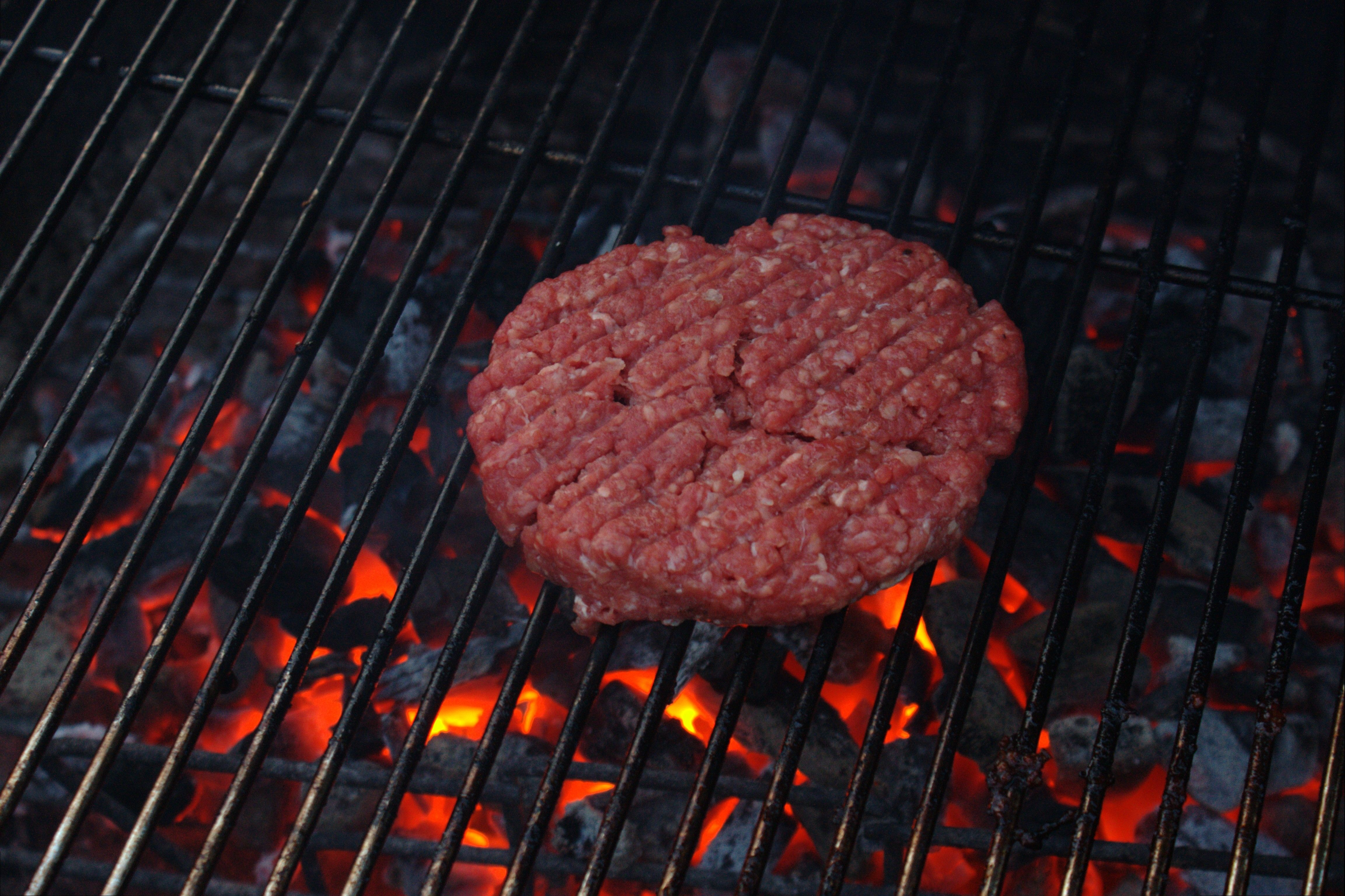 Burger starting to cook on barbecue